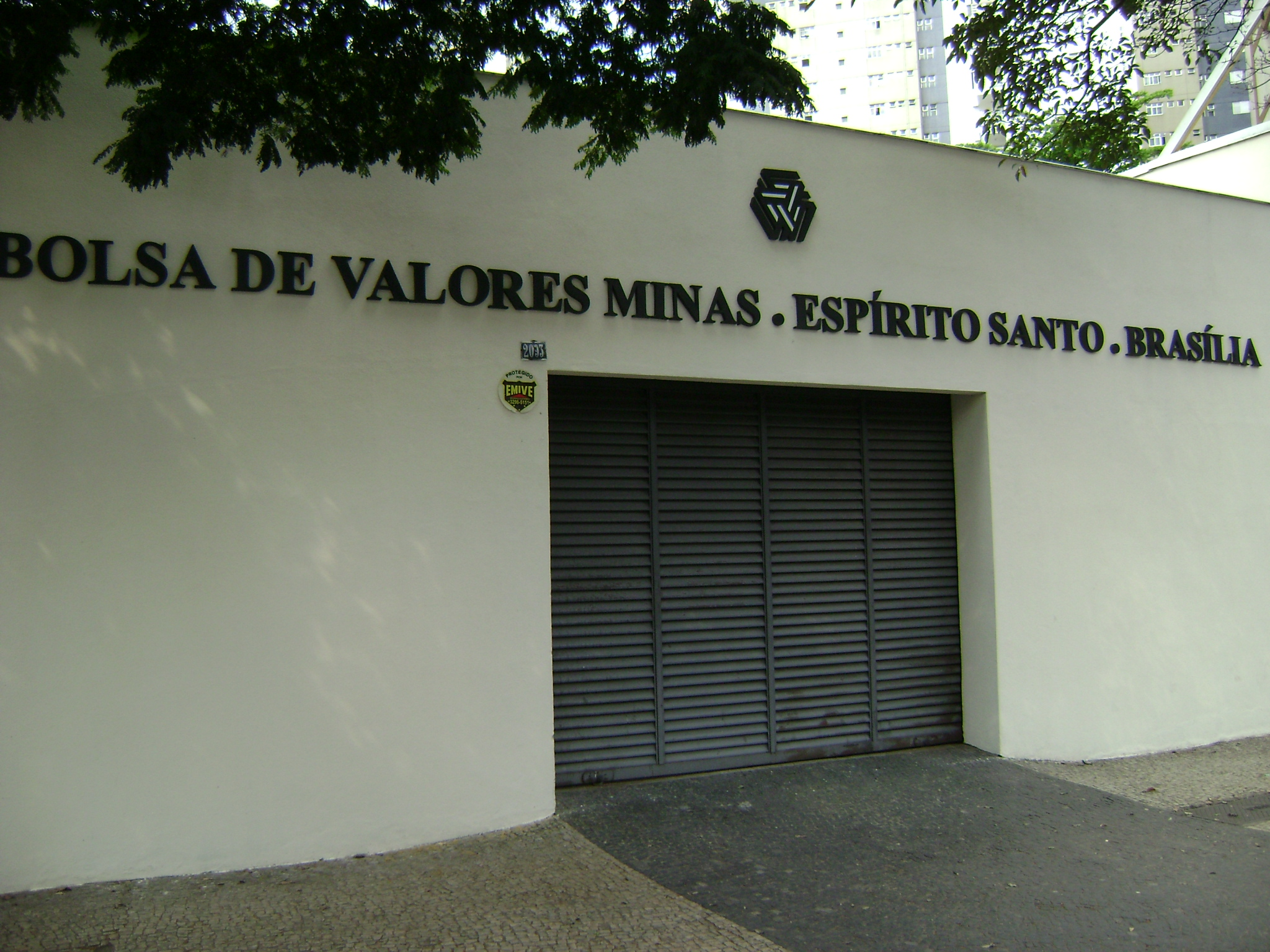 Bolsa de Valores Minas - Espírito Santo - Brasília, in Belo Horizonte.